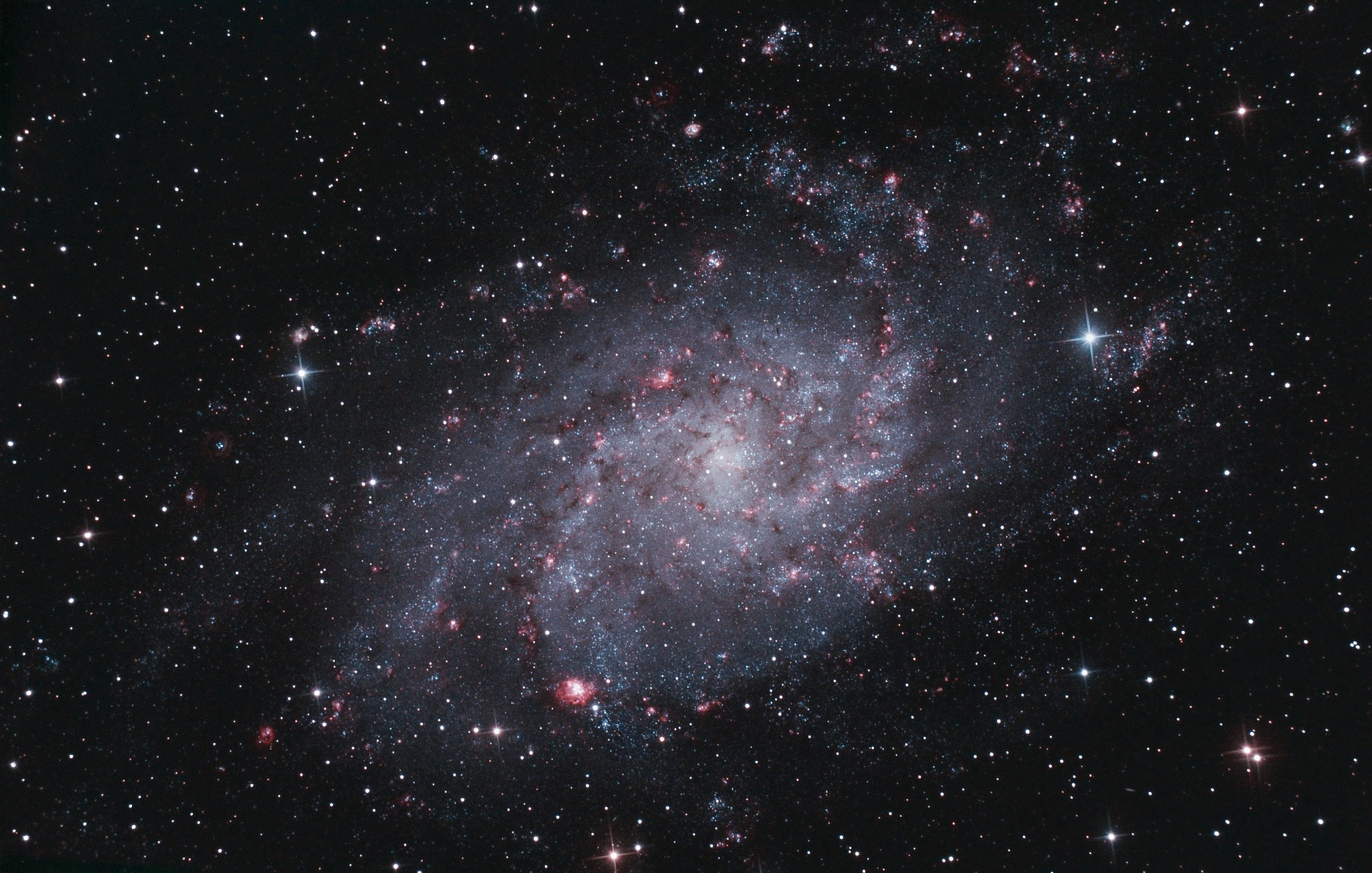 Telescope: Newton 10", mount: EQ6, kamera: Canon EOS 400Da, Coma Corrector: Baader MPCC 2", Filter: Baader Planetarium UHC-S, CLS 42 x 15min.